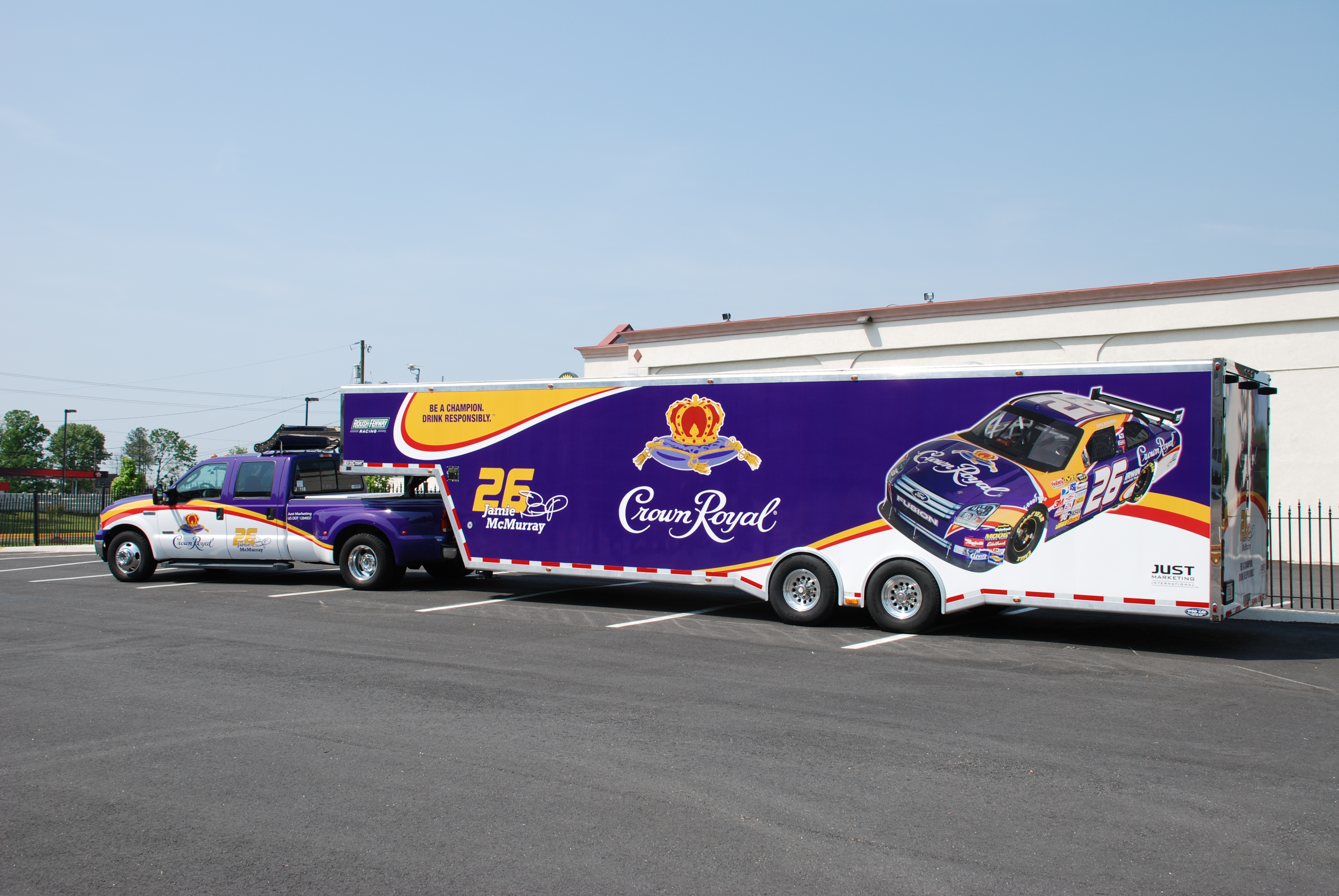 I know nothing at all about NASCAR, but I figured I'd take a picture of Jamie McMurray's truck, which was parked at the hotel we stayed at south of Richmond. (I have no idea who Jamie McMurray is, but I googled him and it turned out that he was in the Dan Lowry 400 at the Richmond International Raceway two days later on May 3. He crashed on mile 364 and came in 35th of 43.)